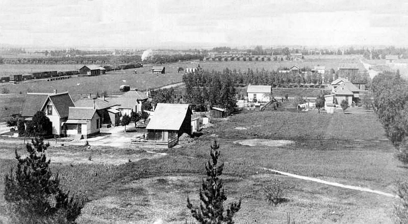 Panoramic view of the early rural farm community in the town of Orange as seen from a window at the Palymra Hotel (see image 00023198). A railroad can be seen on the left.